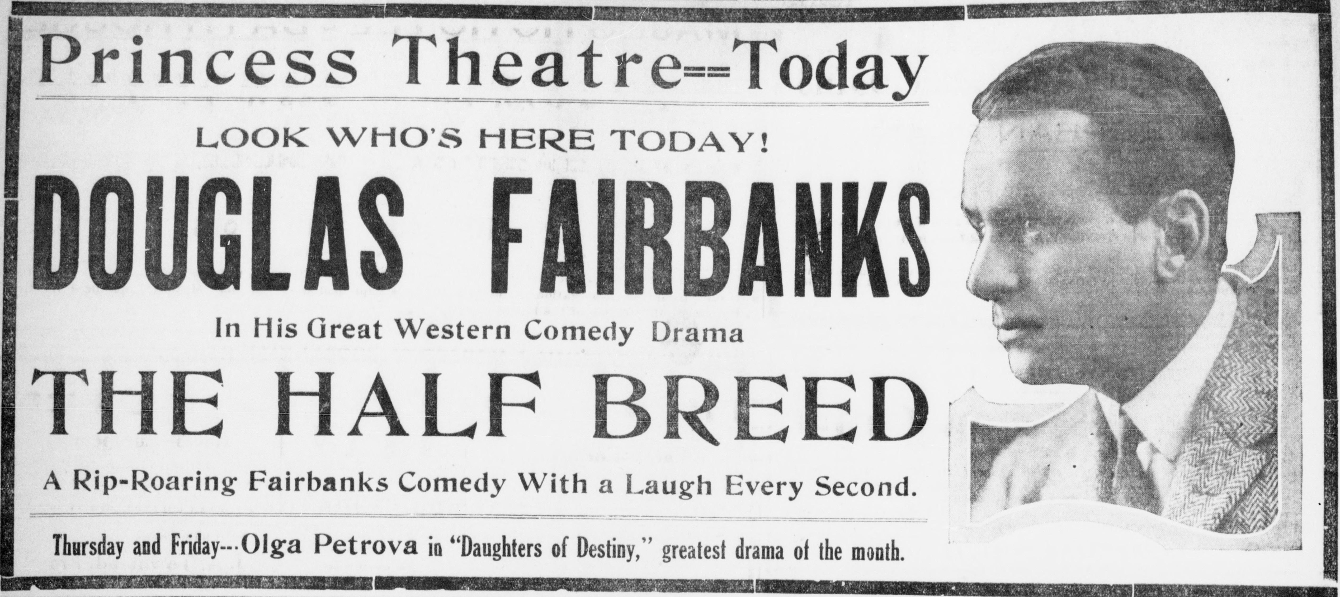 The Half-Breed movie newspaper advert